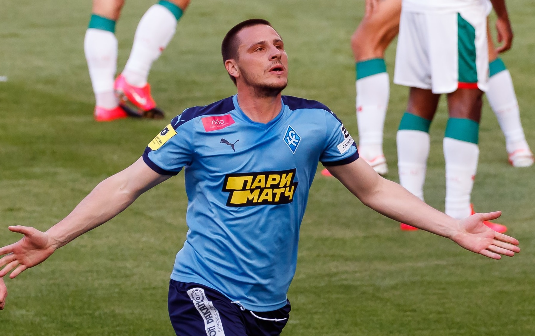 Dejan Radonjić celebrates scoring a goal for PFC Krylia Sovetov Samara against FC Lokomotiv Moscow.